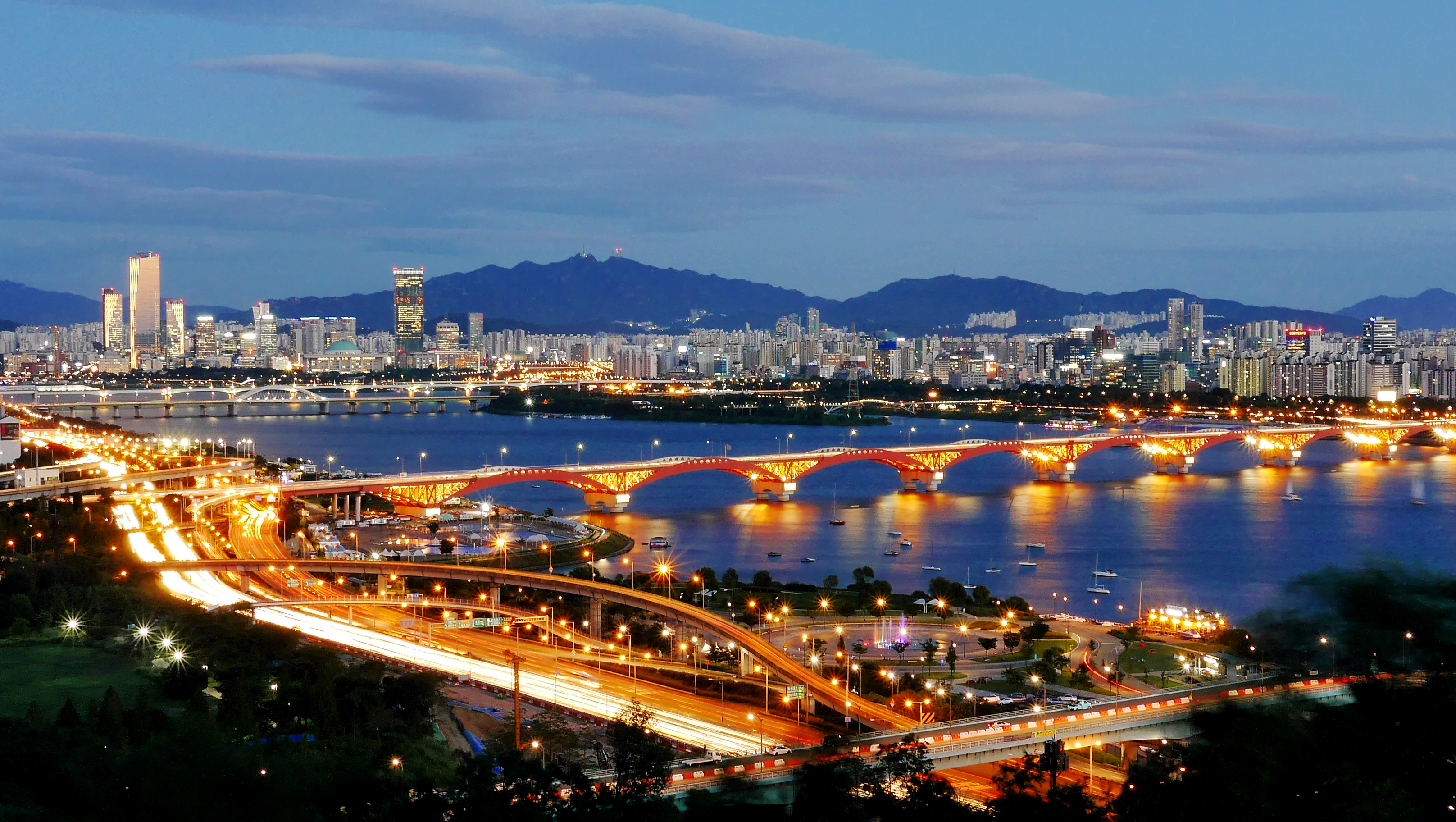 Seoul at night